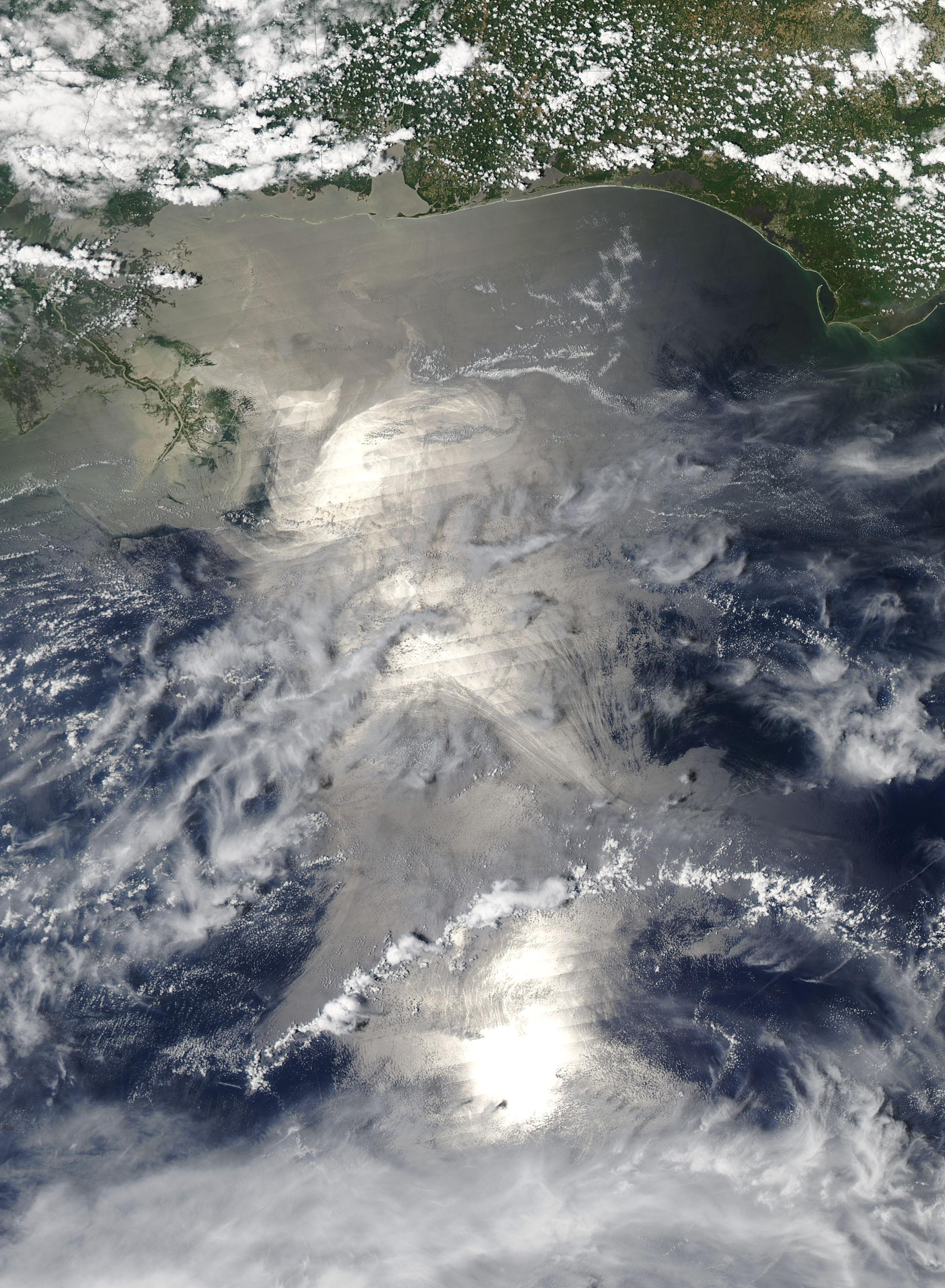 Satellite image showing us the sun reflected by the oil in it's way to the Gulf of mexico. The spill was caused by the platform Deepwater Horizon when it exploded.